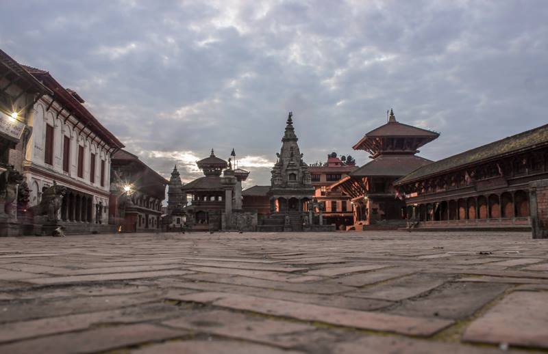 Bhaktapur Durbar Square at early morning.